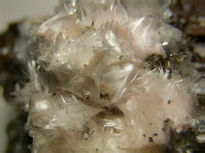 Pickeringite Locality: Dubník, Červenica (Czerwenitza), Northern Slanské Mts, Prešov Region, Slovakia Cobalt rich variety of Pickeringite (Kasparite) Field of view 10 mm. Depth of field is achieved with CombineZM. Specimen and photo Leon Hupperichs.